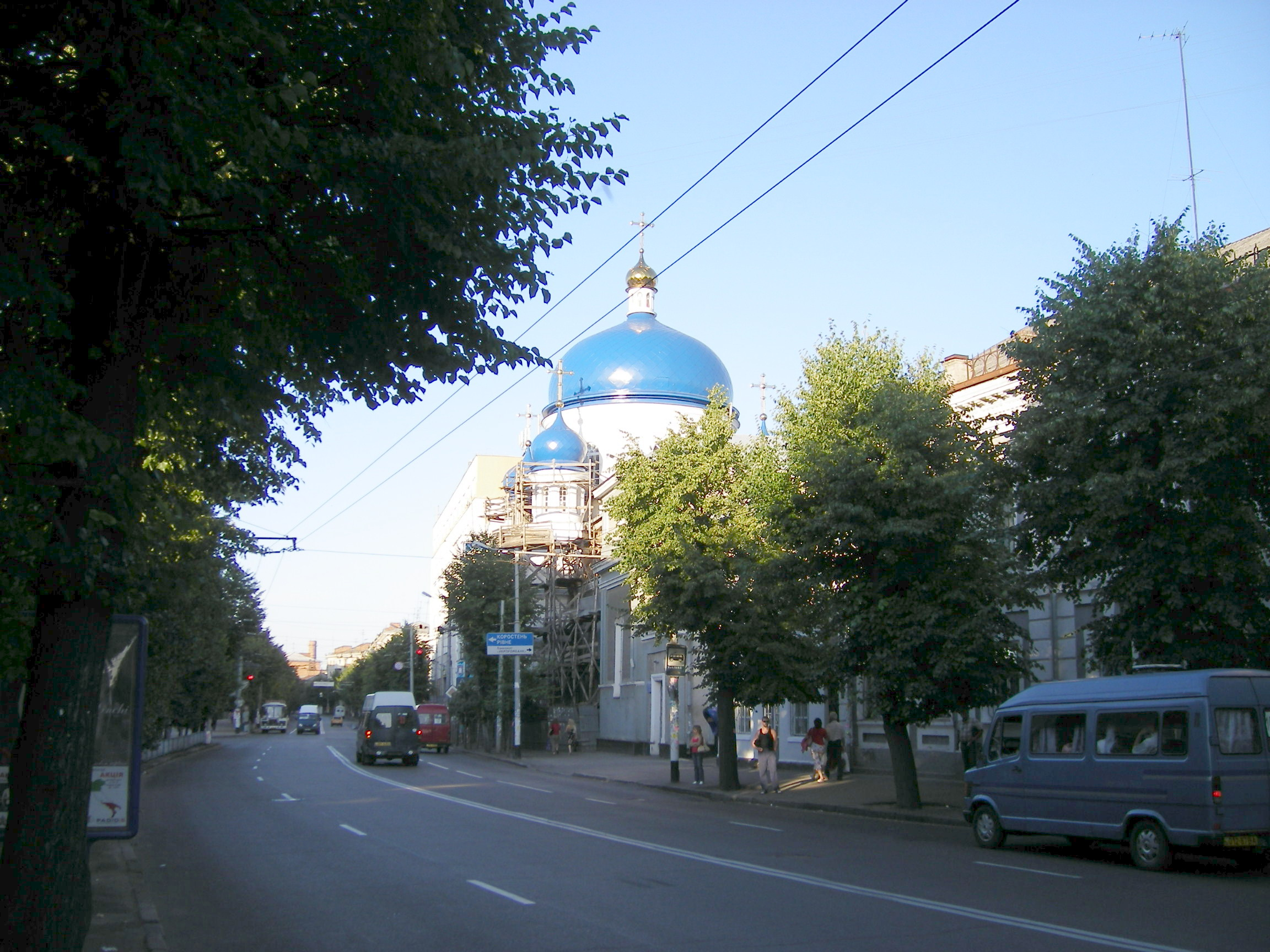 Zhytomyr, St. Michael´s church